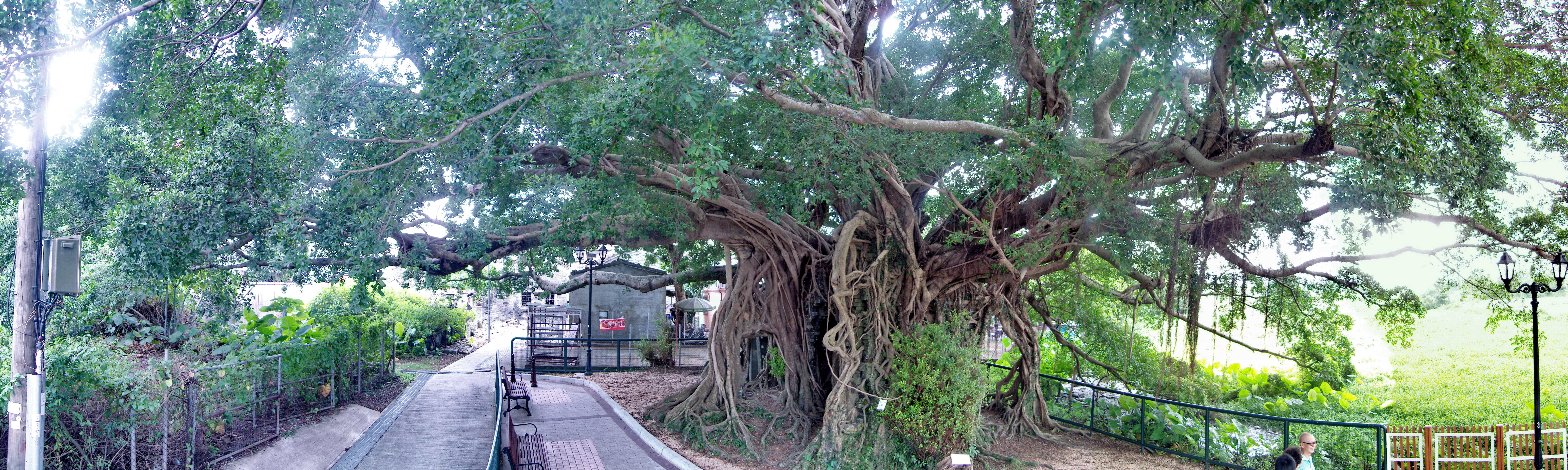 Kam Tin Tree House (An old banyan tree grew bigger and bigger besides the stone house, and after centuries, there're only part of brick walls and a granite doorframe left under the huge tree.) in Shui Mei Village, Kam Tin, Hong Kong.